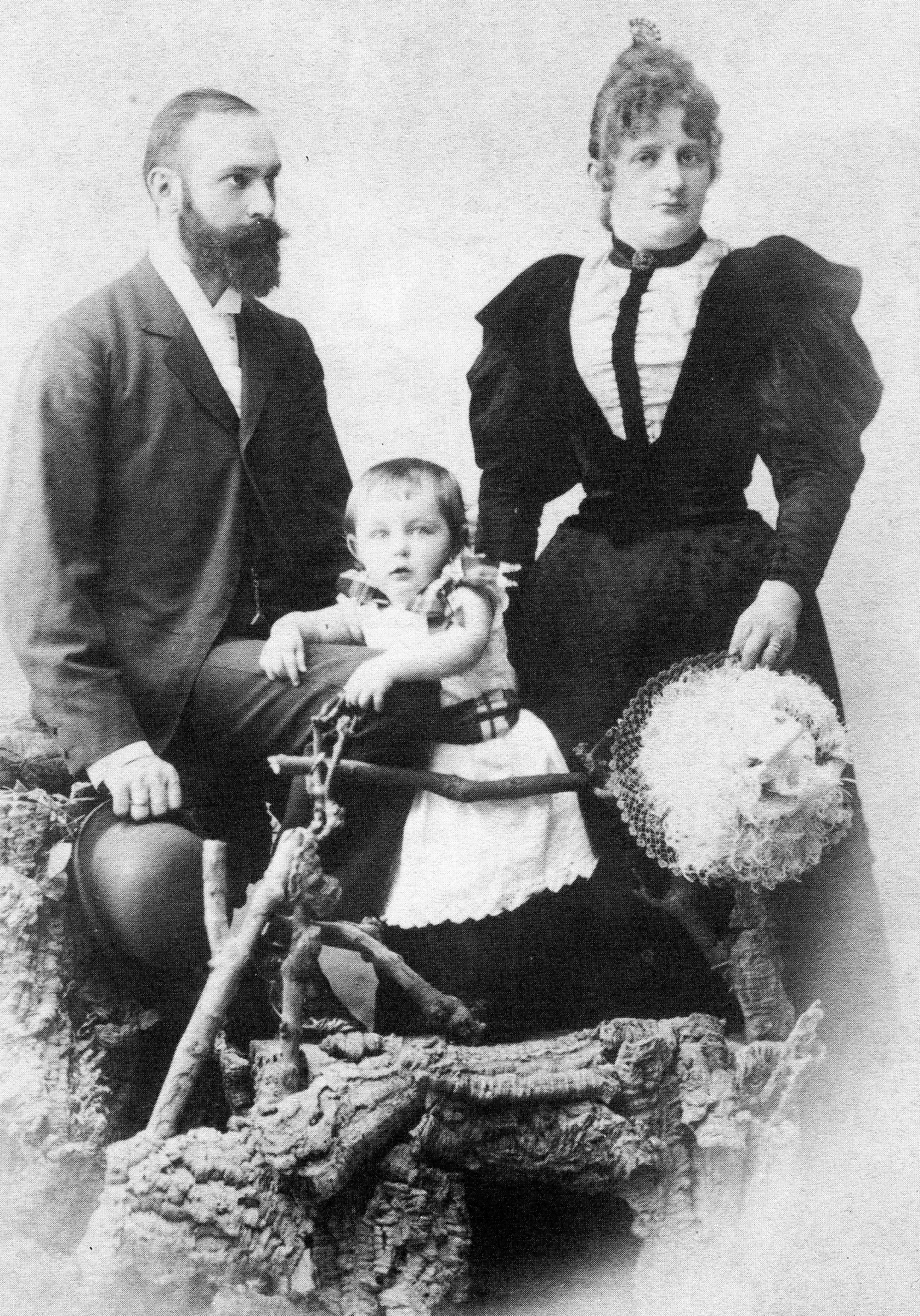 Johann Reinhard Bünker (also János Rajnárd Bünker) (1863-1914) teacher and folklorist in Austria at the time of the monarchy with family in Sopron / Hungary / EU.